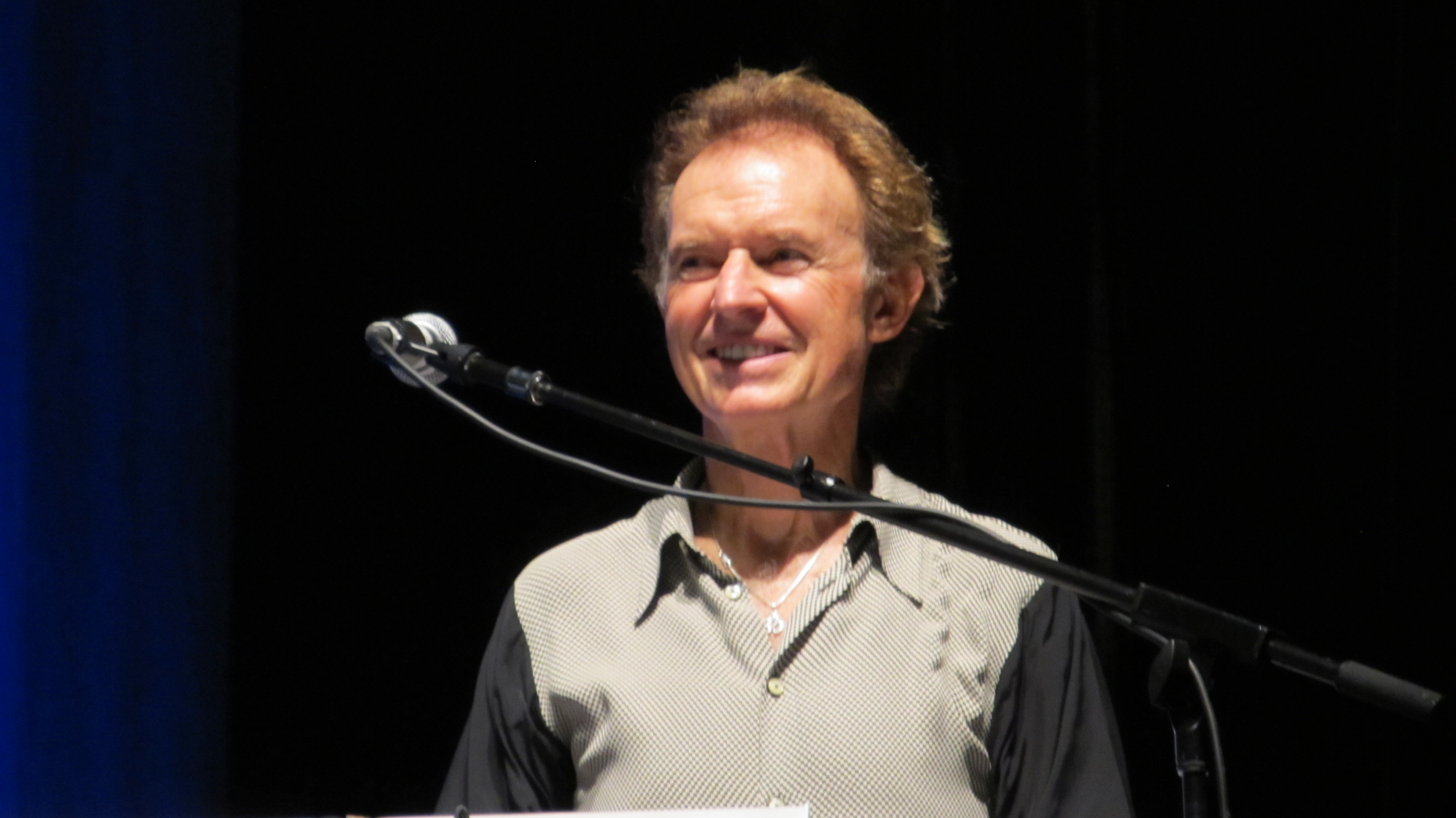 Gary Wright concert in Paris June 26, 2011 : Ringo Starr and his All-Starr Band